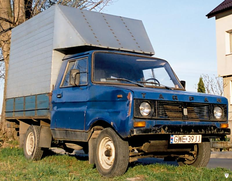 Polish all-terrain vehicle Tarpan. Originally from Polish Wikipedia, by Topory.